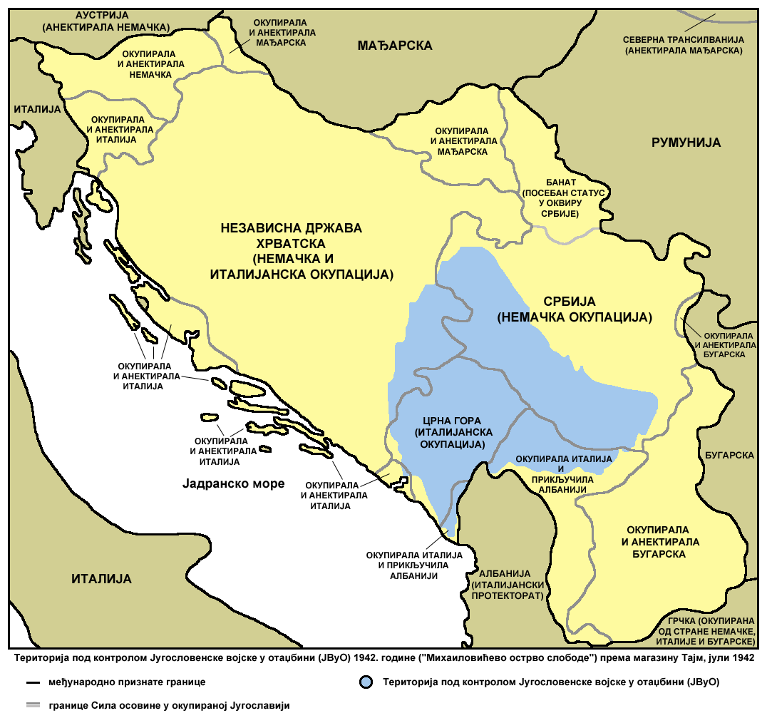 Territory controlled by the Yugoslav Army in the Fatherland (JVuO) in 1942 ("Mihailović's Island of Freedom") according to Time magazine (July 1942).